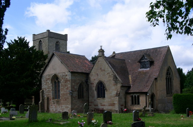 St Peters church Droitwich. A green oasis in the midst of modern housing in this ancient town